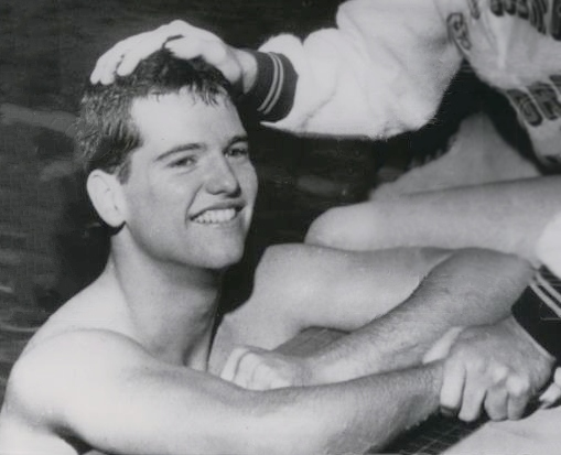 1960 Press Photo Mike Troy after he set new national record in the 220yd butterfly